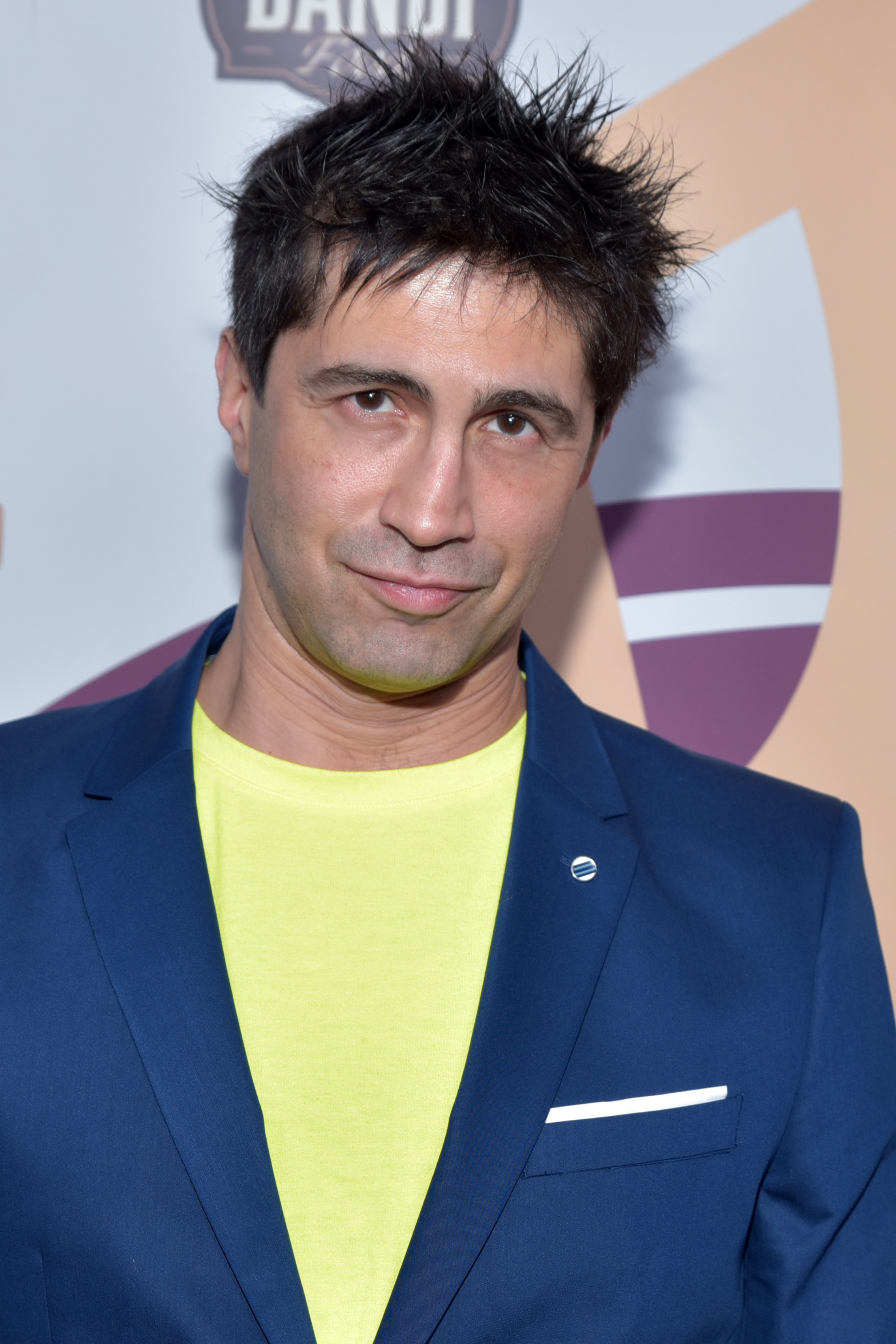 Val Lapin of Bratana arrives for the Mrs. Russian America 2020 Pageant on February 20, 2020 in Hollywood, California. (Photo by Glenn Francis /PacificProDigital.com)